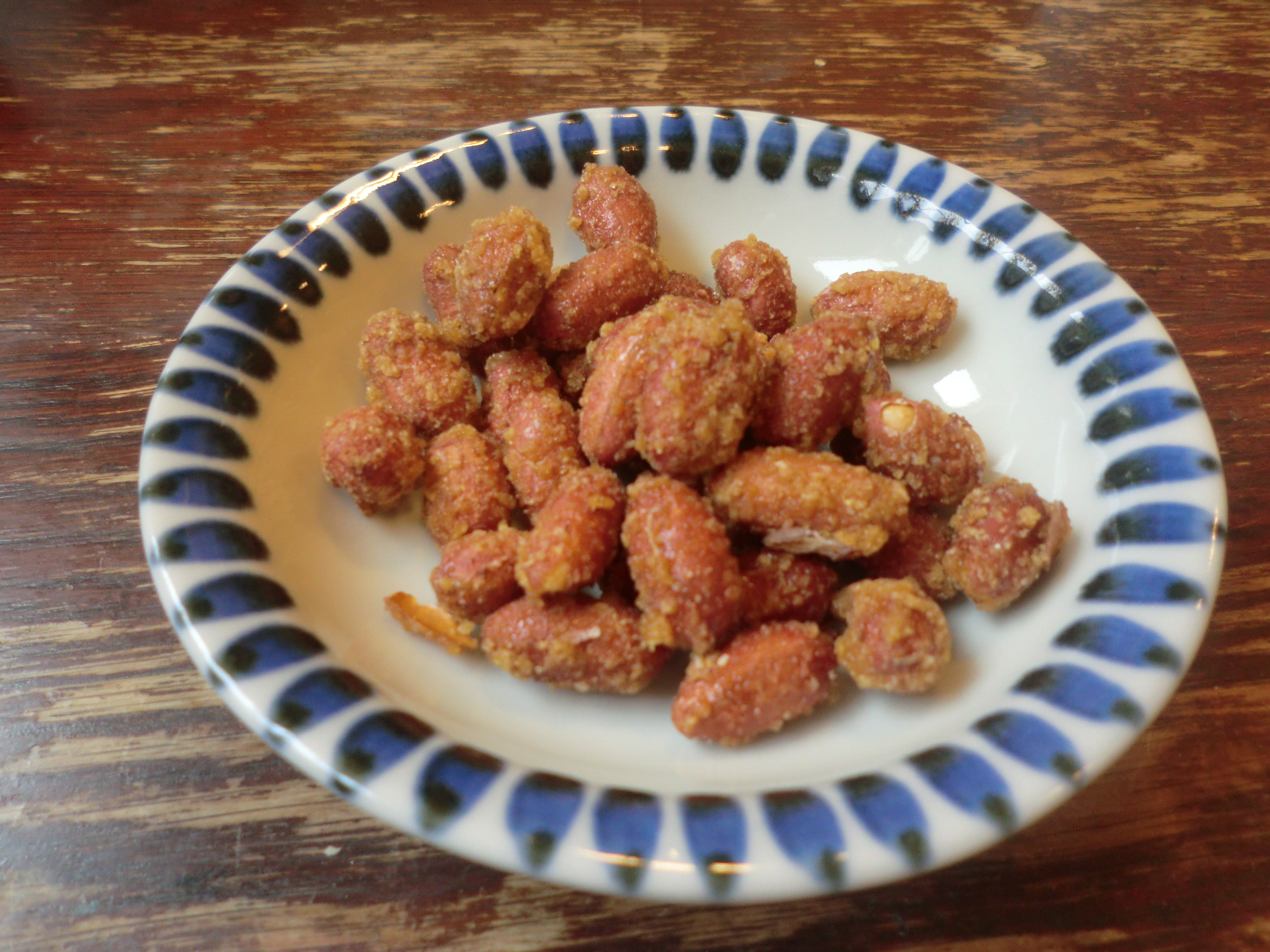 Ochauke Miso Pea, famous sweet in Amami Oshima Island, Kagoshima, Japan.